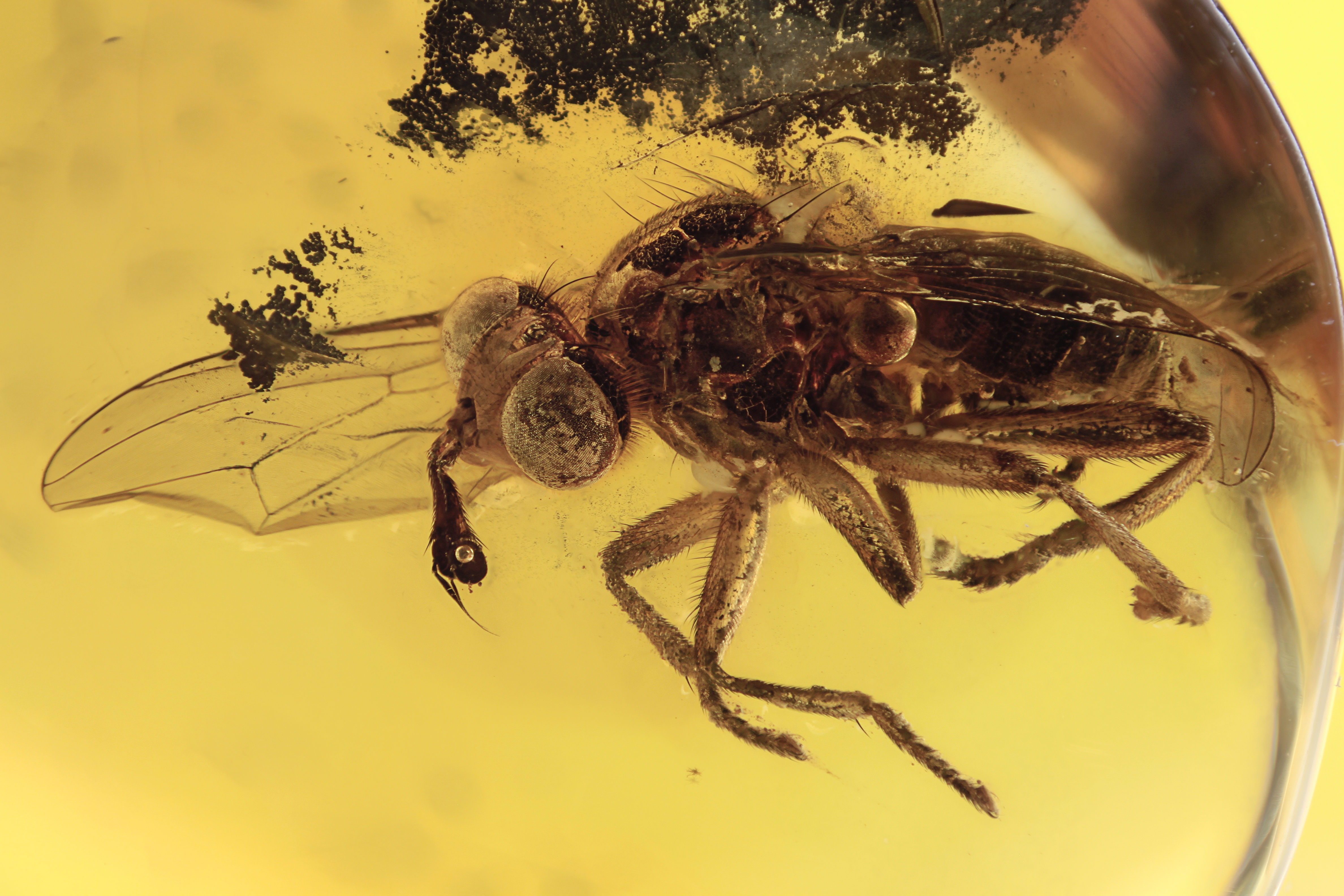 Palaeomyopa spp. (Conopidae, Diptera) in baltique amber discover in 1982